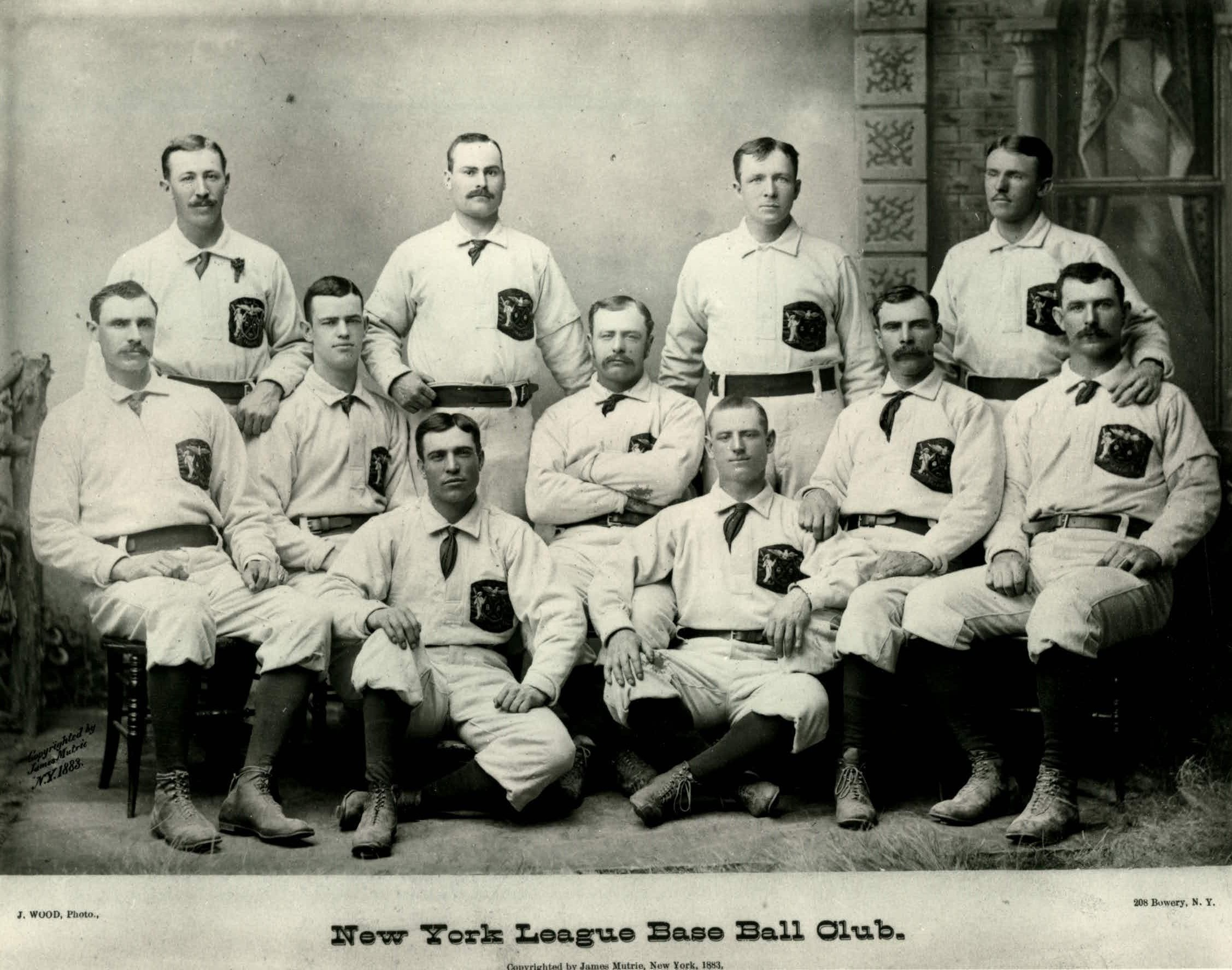 1883 New York Gothams baseball teamBack row, L-R: Buck Ewing, Frank Hankinson, Mike Dorgan, John Montgomery WardMiddle row, L-R: Patrick Gillespie, Tip O'Neill, John Clapp, Ed Caskin, Roger ConnorFront row, L-R: Mickey Welch, Dasher Troy